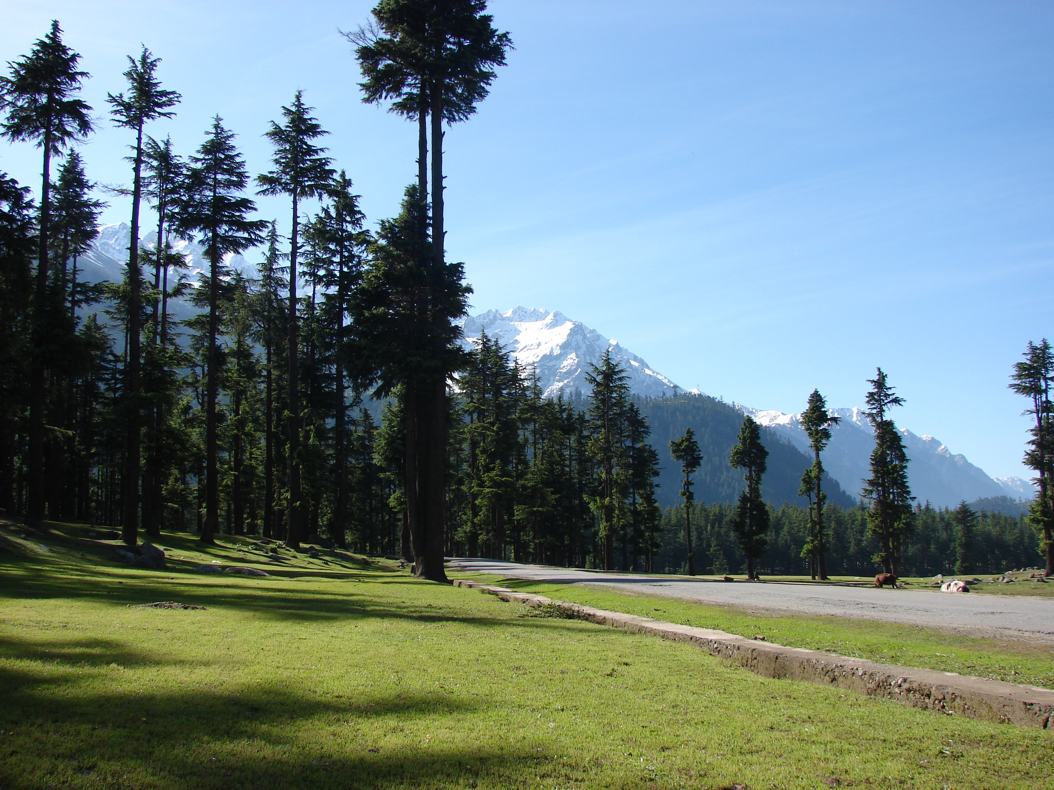 Kalam, Swat Valley, Pakistan